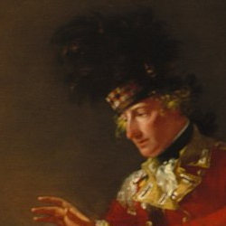 George Mackenzie in The Sortie Made by the Garrison of Gibraltar, 1789 by John Trumball